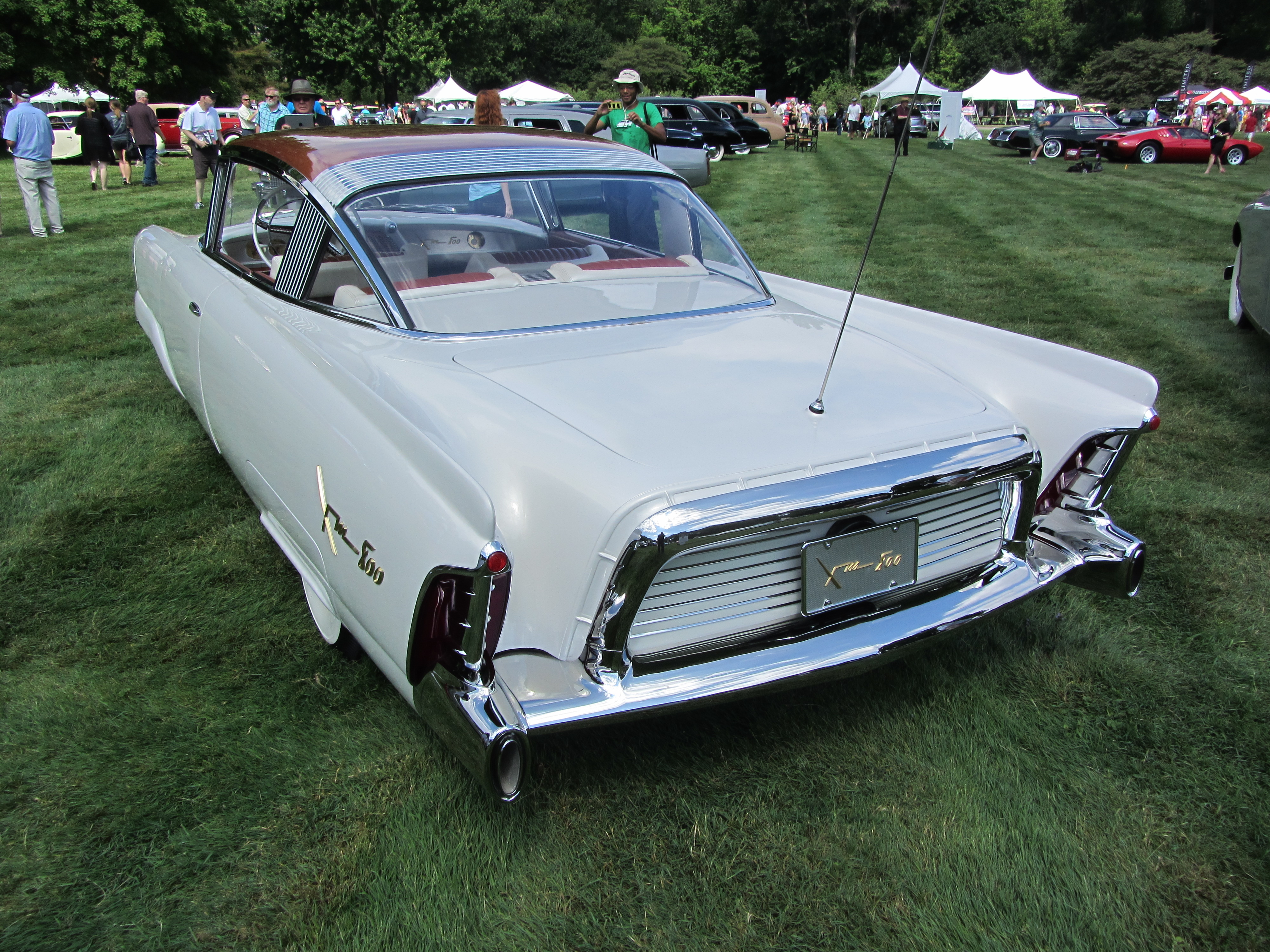 "The 1954 Mercury XM-800 was conceived by Mercury's Pre Production Studio, Headed by John Najjar with assistance from Elwood Engle, and built by Creative Industries in Detroit. First shown to the public at the 1954 Detroit Auto Show, the futuristic XM-800 was promoted at various shows that year, also appearing in the 1954 movie, "Woman's World", and as a small model found in boxes of Post Grape Nuts Flakes. It was donated to the University of Michigan in 1957, later auctioned off to a private citizen, ultimately landing in the hands of famous concept car collector Joe Bortz in 1987. Under Bortz's ownership it became a drivable car, then sold in 2008 to current owner Richard H. Driehaus, who had it restored to its original glory" From the official program to the Eyes on Design.